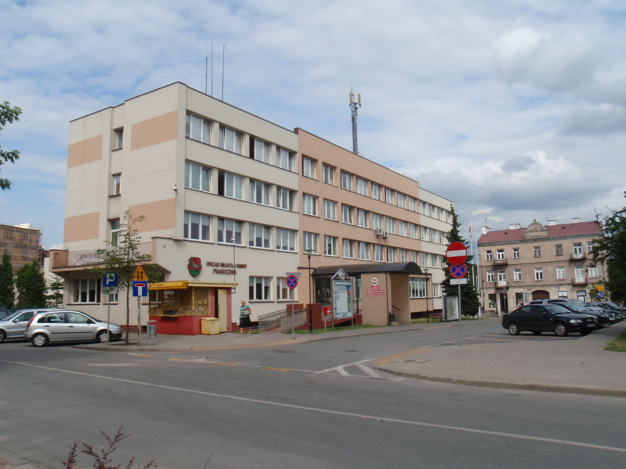 Building of Gmina Piaseczno Office